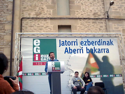 EGI Eguna 2004, EGI members and Josu Jon Imaz.